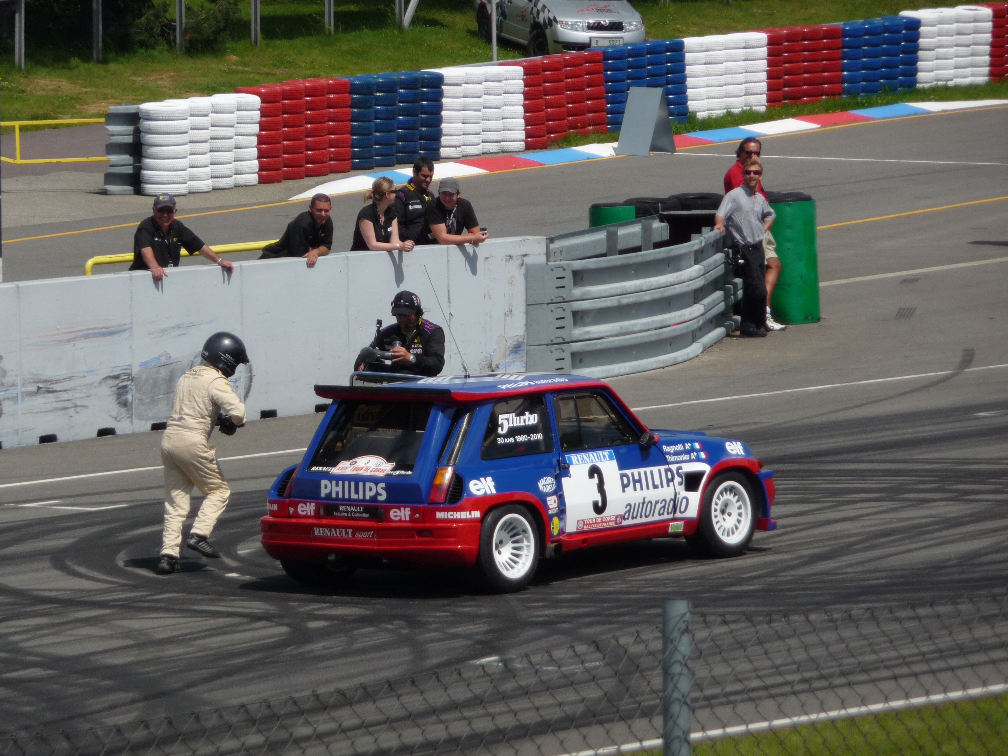 Jean Ragnotti exhibition, 2010 Brno World Series by Renault